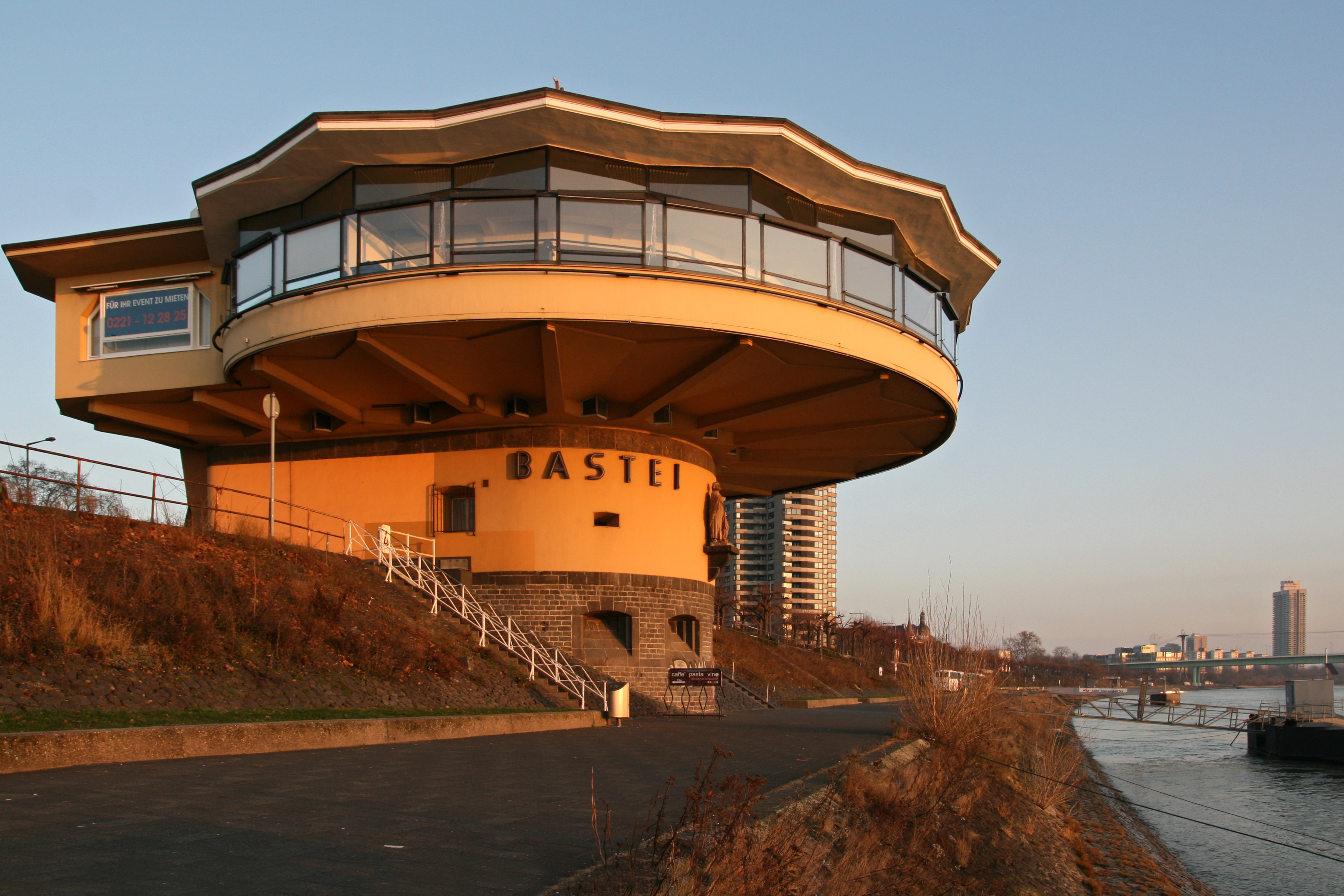 Restaurant Bastei, Cologne; build 1924 by Wilhelm Riphahn